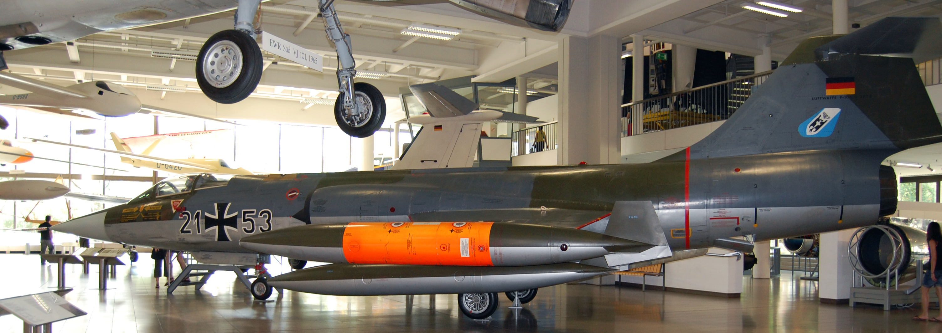 Lockheed F-104 Starfighter. Deutsches Museum, Munich